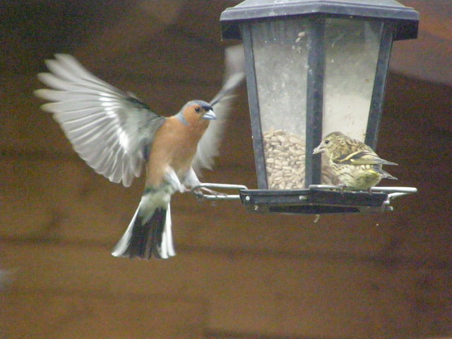 Chaffinch coming in to land